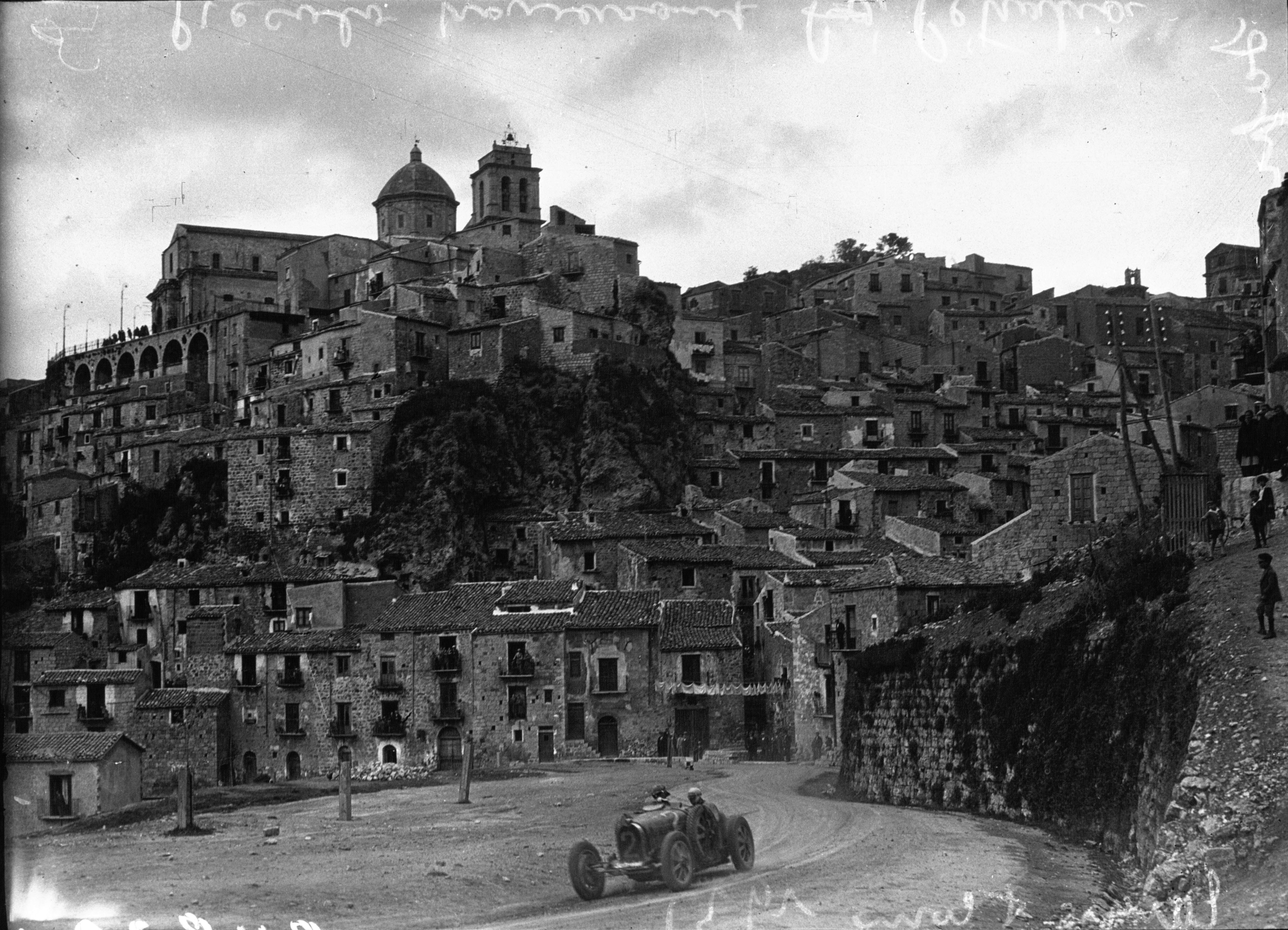 Mario Piccolo in his Bugatti at the 1931 Targa Florio.